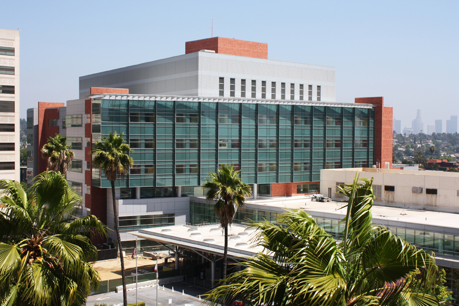 Exterior shot of Childrens Hospital Los Angeles